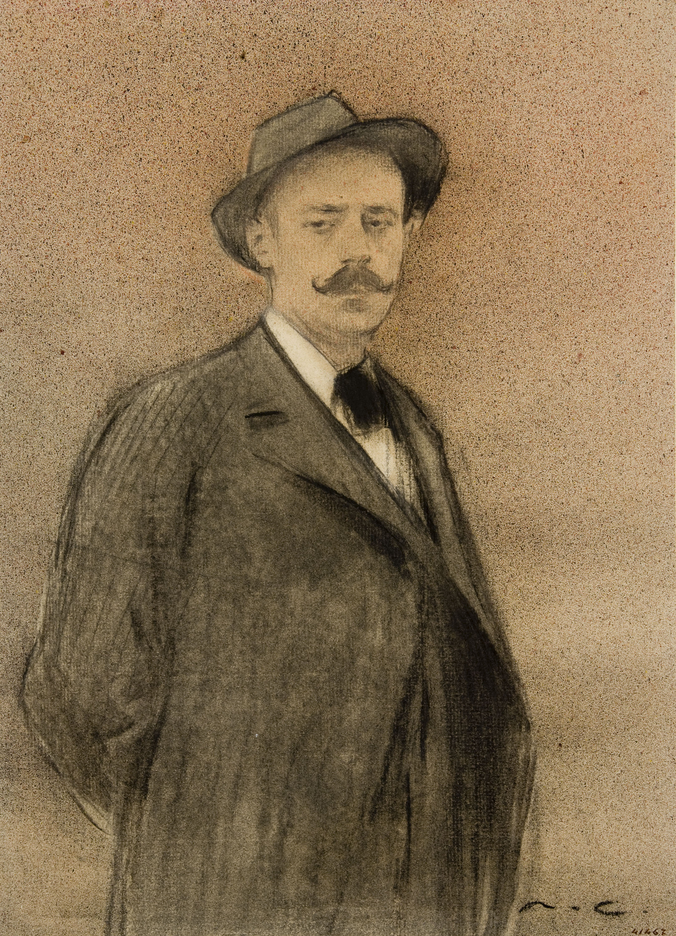 Portrait by Ramon Casas conserved at MNAC in Barcelona.